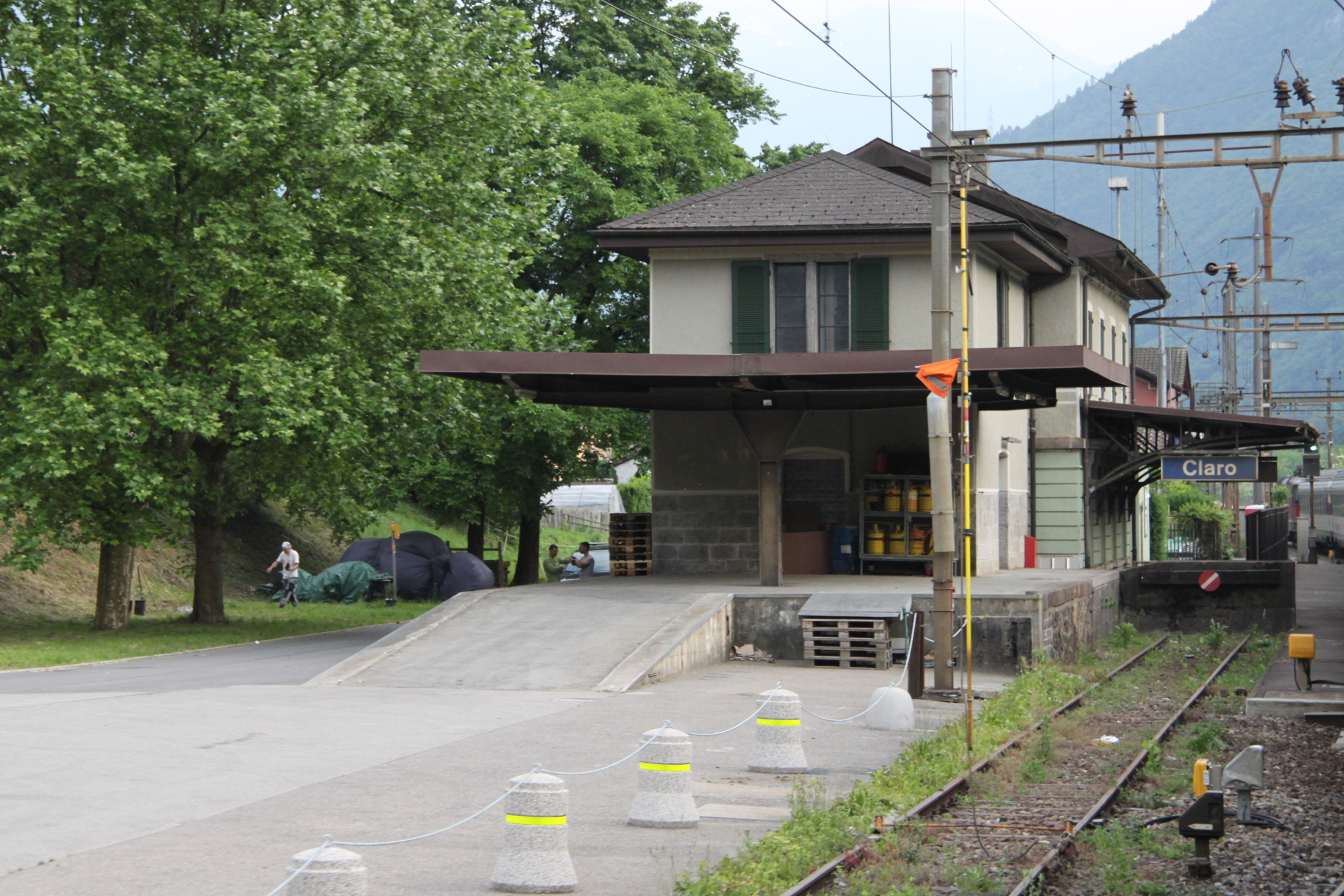 Claro train station.